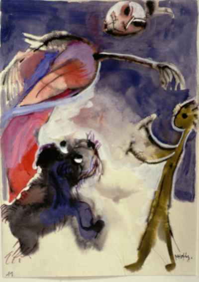 Oil painting Des Pudels Kern zu Faust I von Goethe 21x30 cm, (WV-Nr.1593) by Margret Hofheinz-Döring